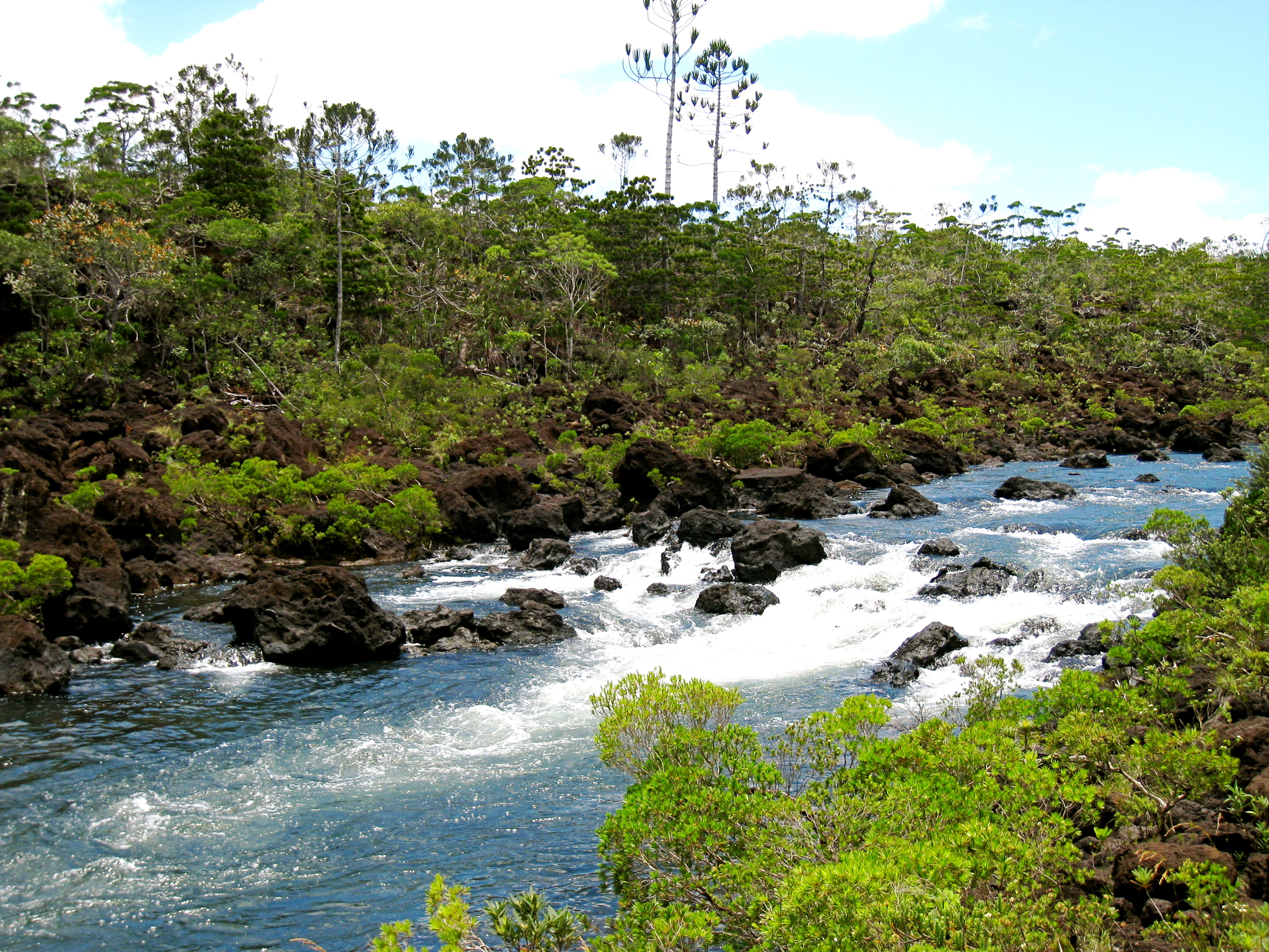 Scrub forest with Araucaria muelleri, Chute de la Madeleine, Yaté, New Caledonia